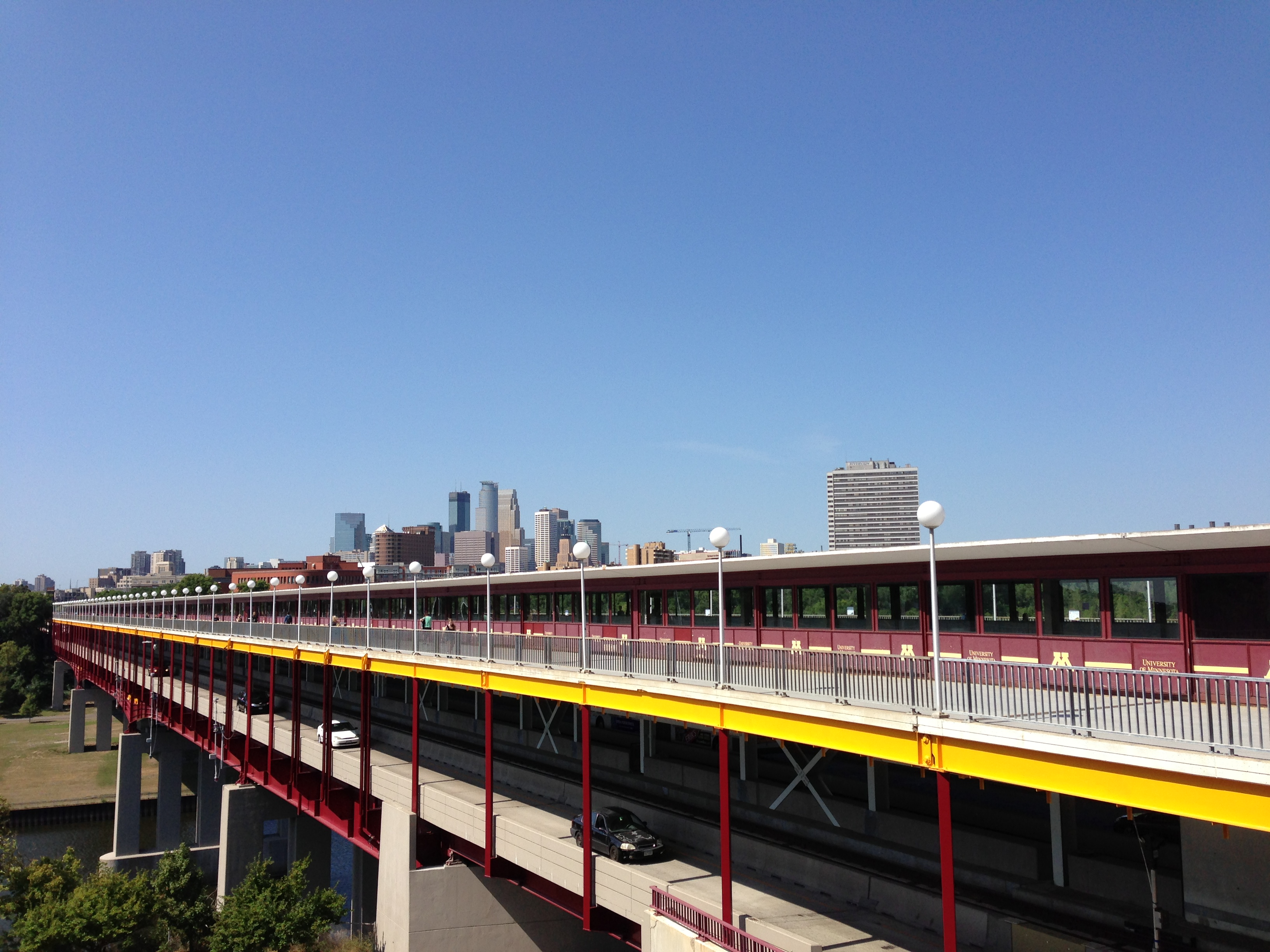 The Washington Avenue bridge over the Mississippi River, connecting the Universoty of Minnesota east and west banks.